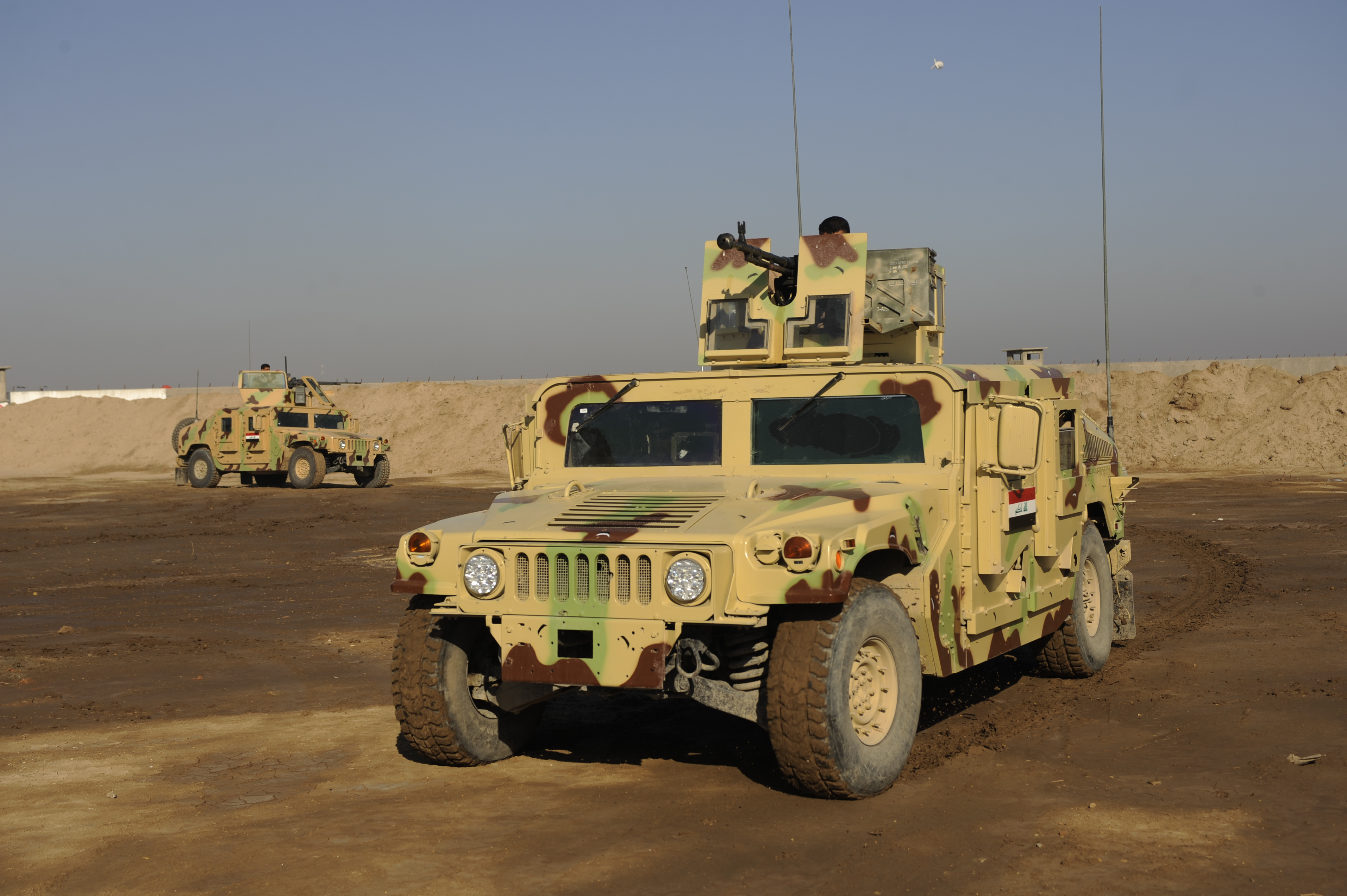 Humvees of the new Iraqi Army.